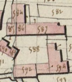 Old Land register of Lizio, 1829.